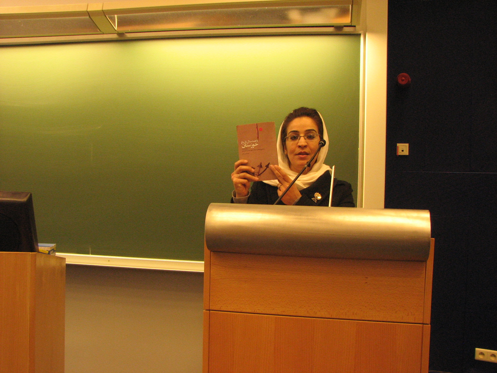 Elham Latifi